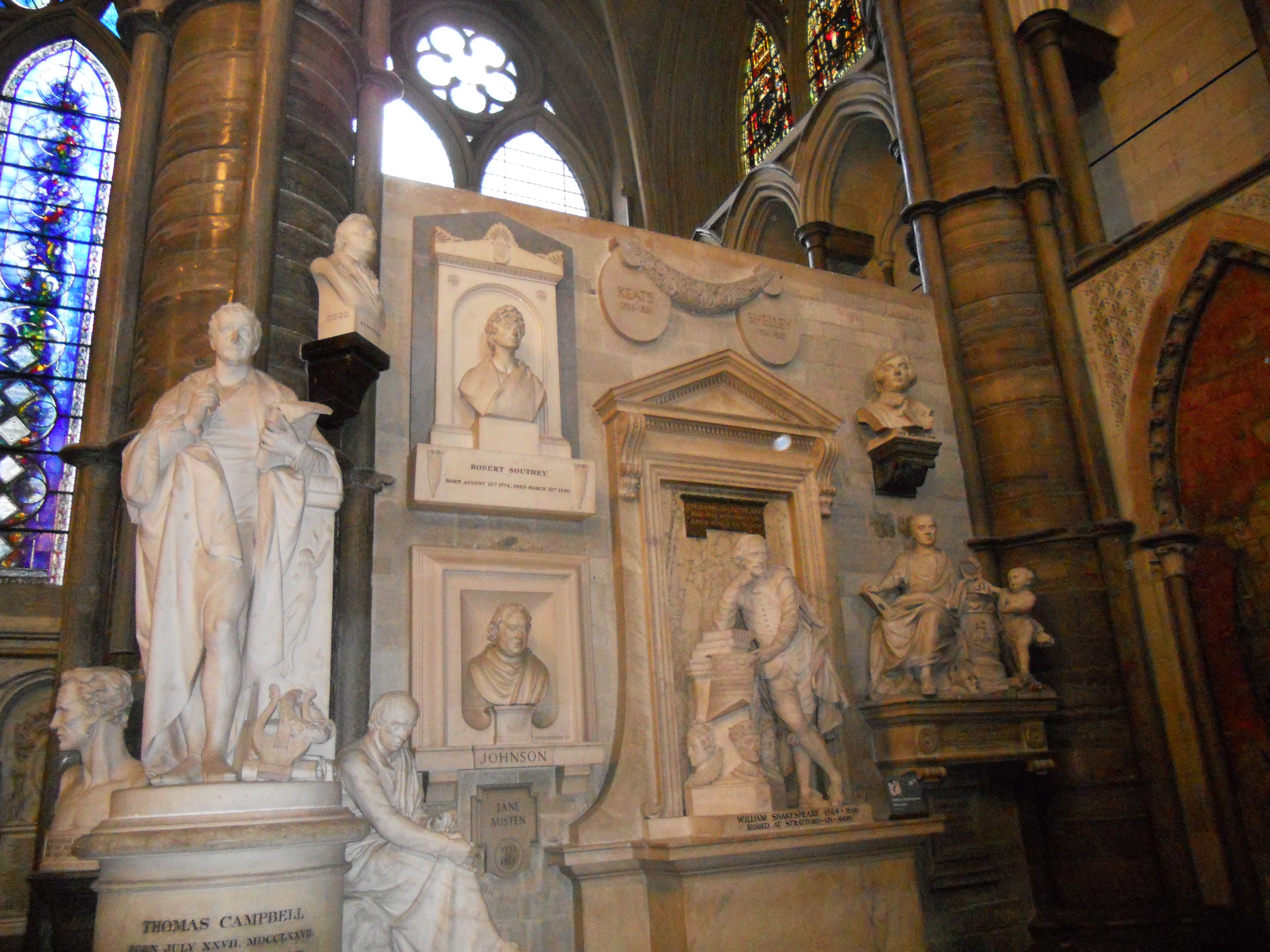 View of sone of the memorials in the South Transept of Westminster Abbey, commonly known as Poets' Corner.